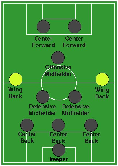 Position of WingBack